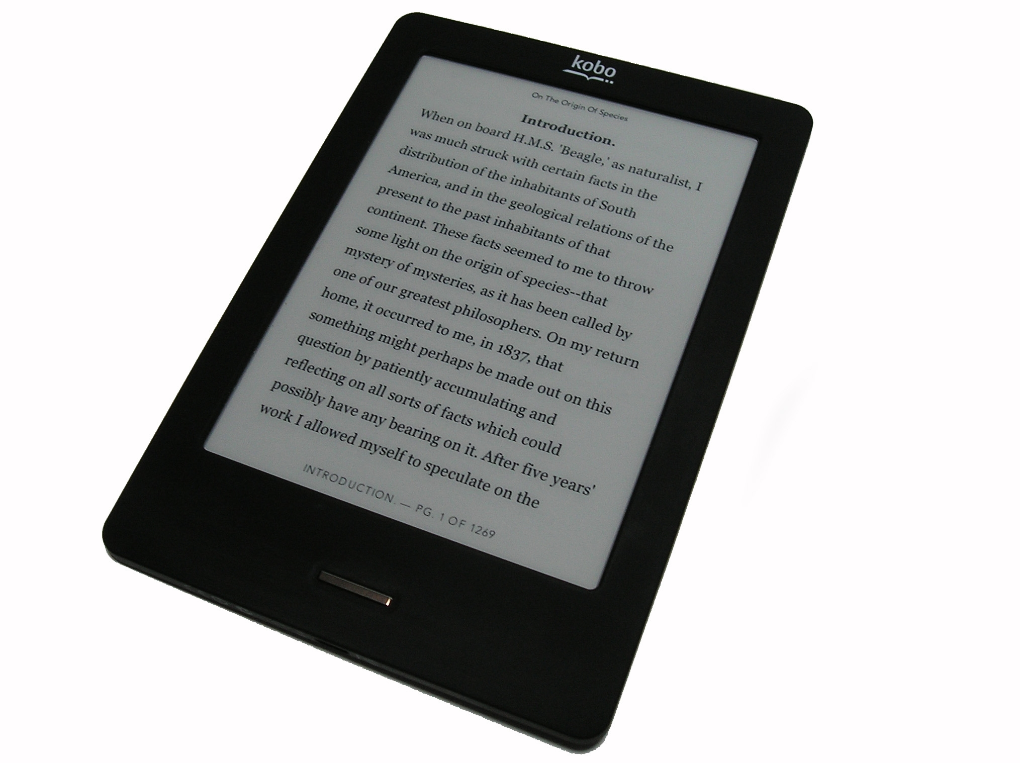 Kobo eReader touch (with open book "On the Origin of Species" by Charles Darwin)